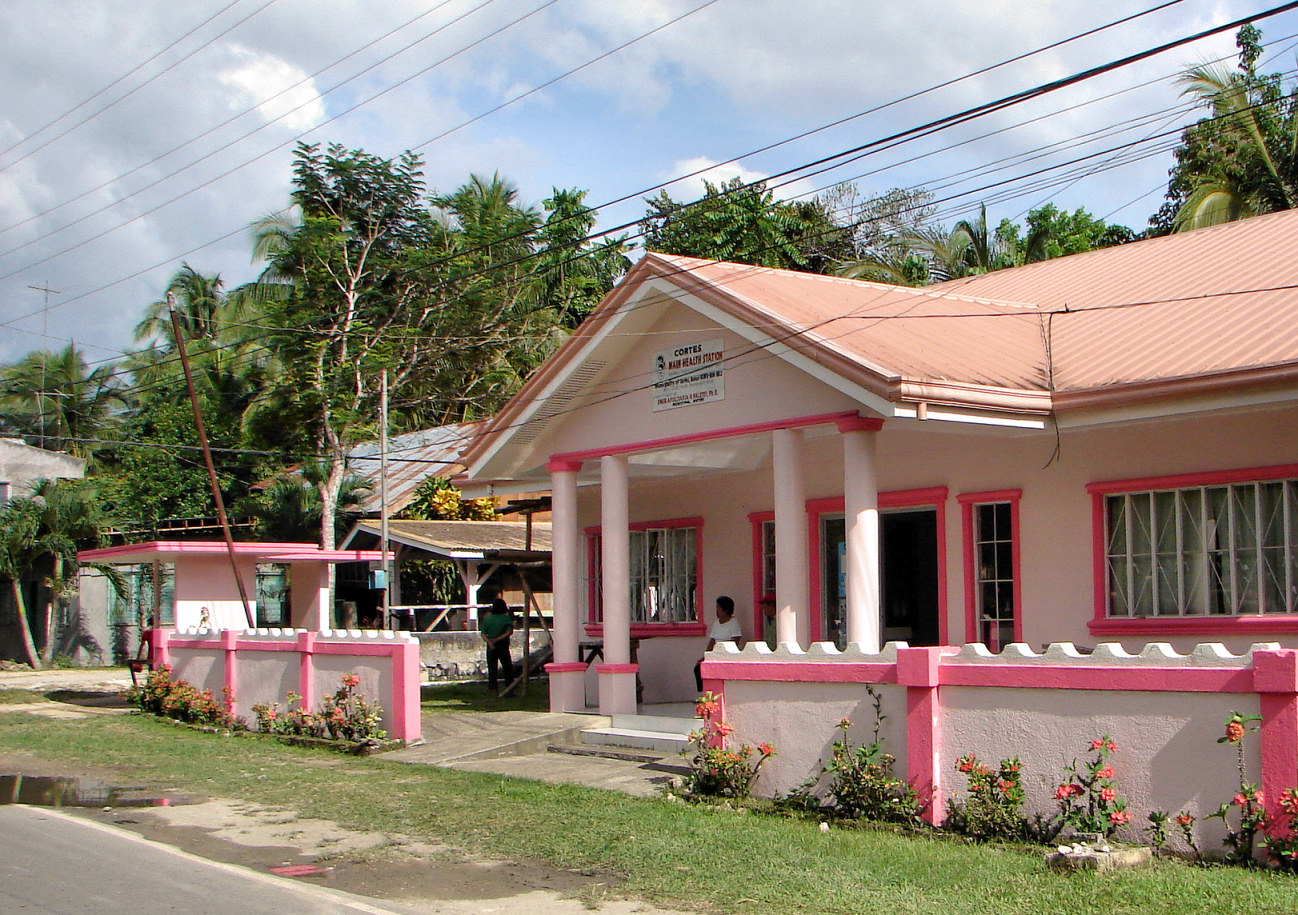 Cortes Health Station, Bohol, the Philippines